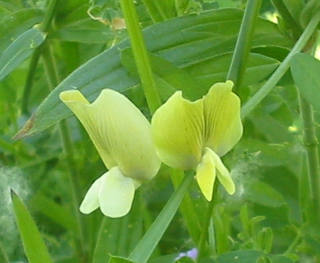 Species: Vicia grandiflora Scop.; Familia: Fabaceae. This plant could be highly poisonous